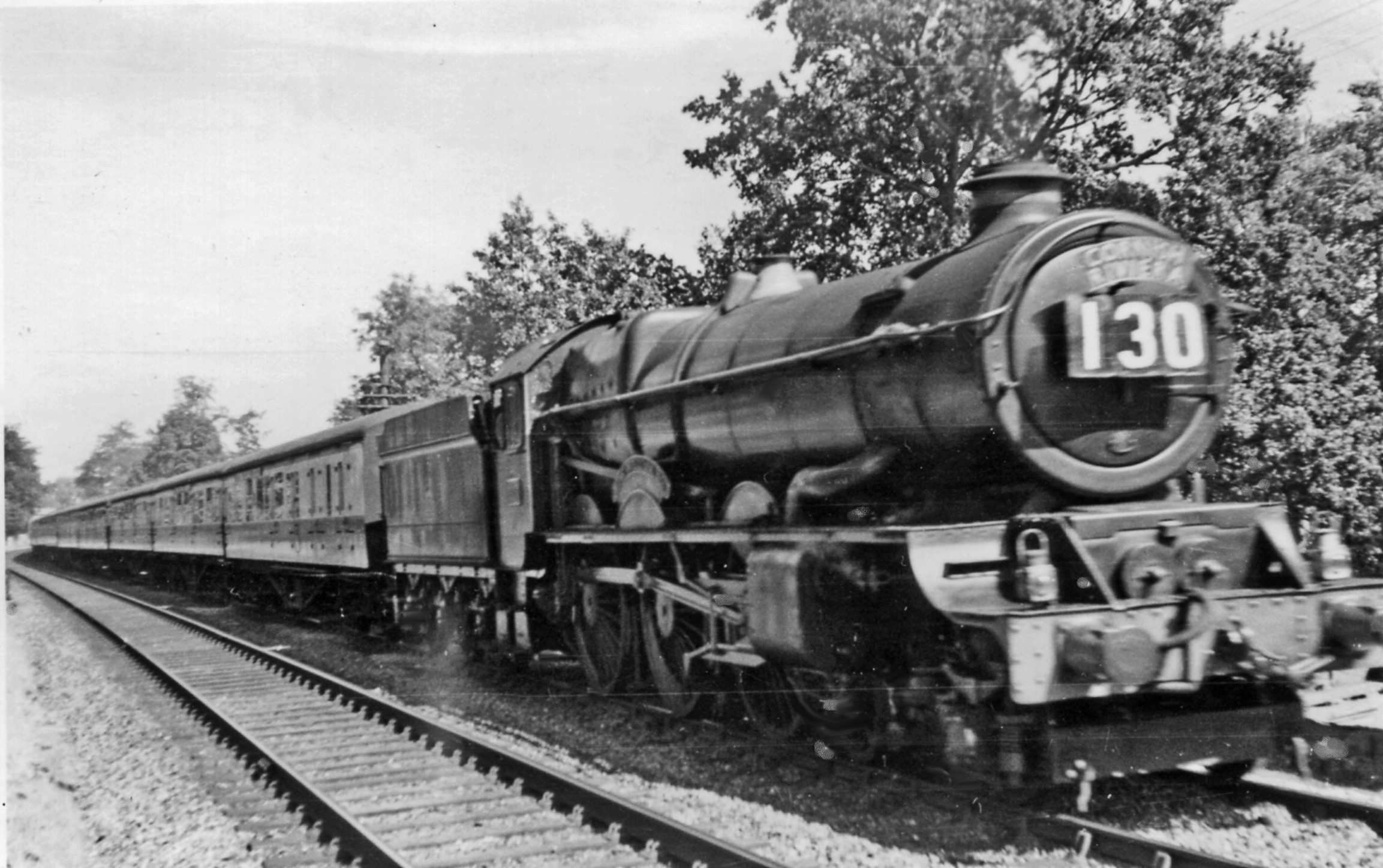 Down 'Cornish Riviera Express' ascending to Whiteball Summit. View NE, towards Wellington, Taunton and London/Bristol: ex-GWR West Country main line. The crack train of the route, 10.30 from Paddington, ran every day (including Sundays) to Penzance, due 16.55 weekdays, 17.25 Saturdays, 18.00 Sundays, ran non-stop to Plymouth but on Saturdays only for change engine and crew - the first advertised stop being Truro. Except on Sundays, part of the train, including the restaurant-car, terminated at St Ives. Here we see it on a Summer Saturday, when it would be preceeded and followed by several Reliefs, hauled as usual - until 1958 - by a Collett 'King' 4-6-0, No. 6007 'King William III' (built 3/36 as a replacement for its 3/28 predecessor which was badly damaged in the Shrivenham accident of 15/1/36, withdrawn 9/62).